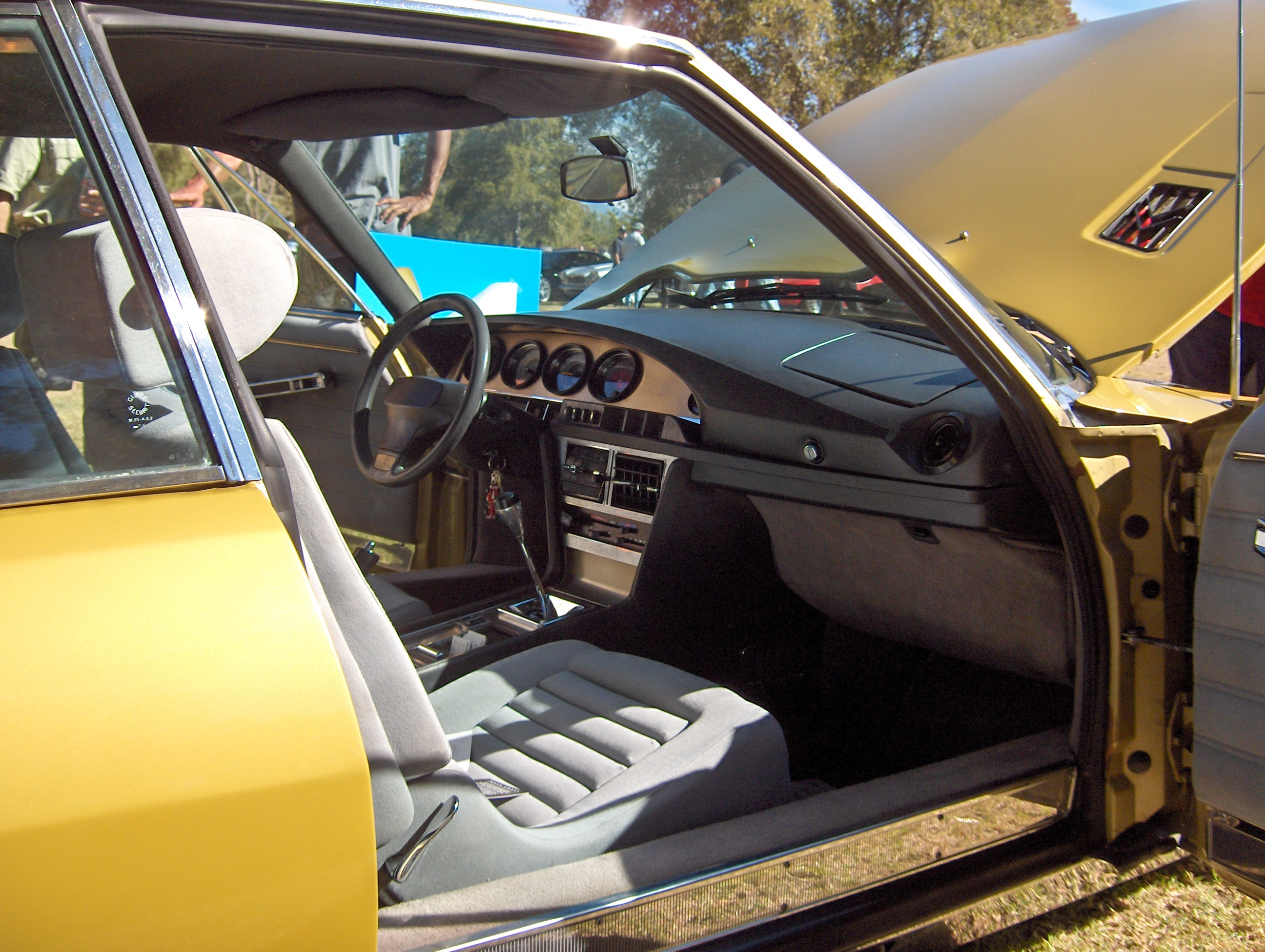 Own photo taken in public location.